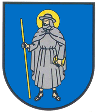 Old (XVI c.) COA of Stryi (Lviv oblast Ukraine)